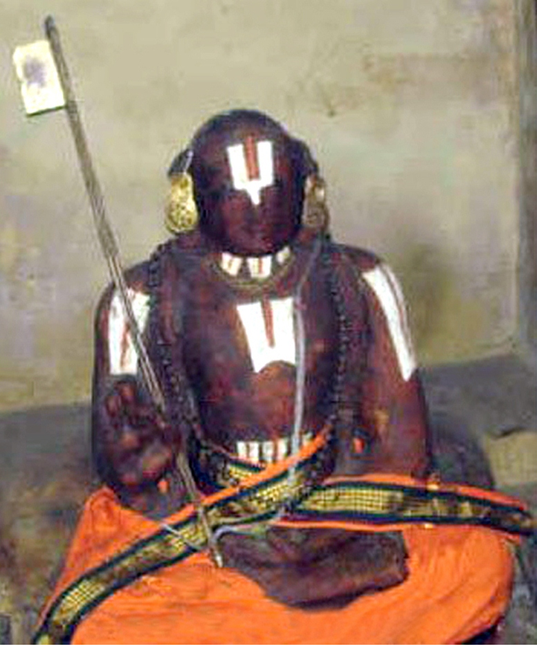 The Holy icon of Ramanuja inside the Sri Ranganathaswamy Temple, Srirangam, Tamil Nadu, India.